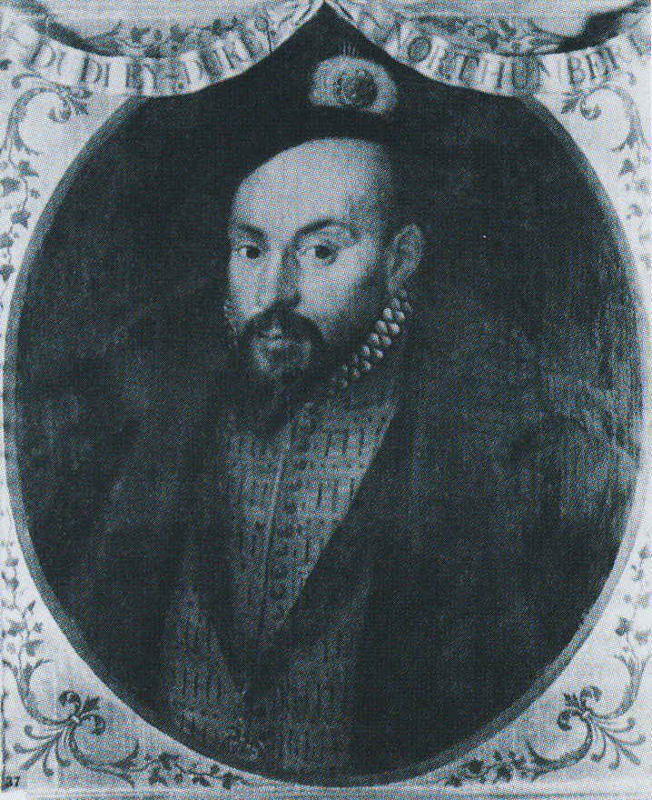 John Dudley, 1st Duke of Northumberland (1504–1553). English general and statesman. Portrait at Knole, Kent, United Kingdom. Not the same artist as similar version at Penshurst Place, Kent. (see: Jordan, W.K.; M.R. Gleason: The Saying of John Late Duke of Northumberland Upon the Scaffold, 1553 Harvard Library 1975, pp. 71–72)